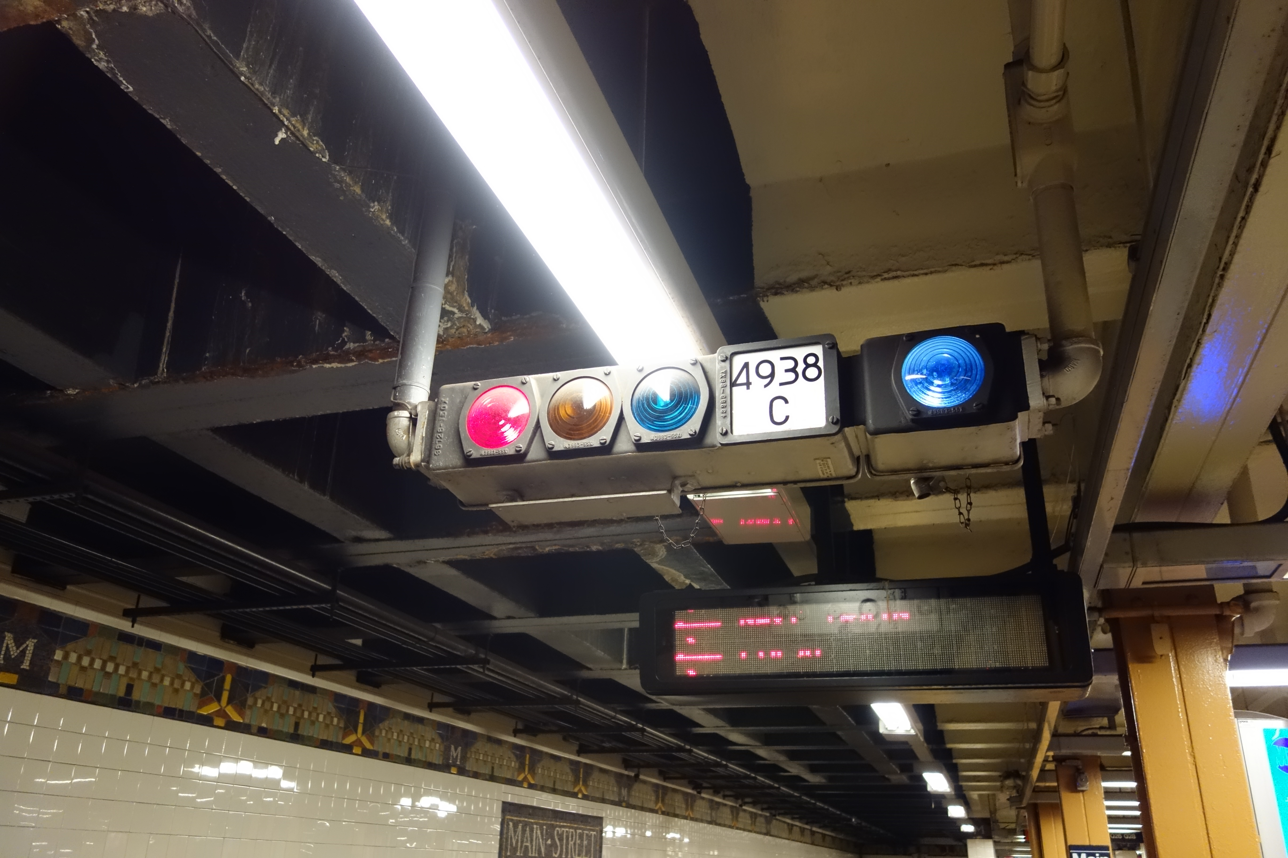 A signal for arriving (eastbound) trains on Track 1, on the northern (westbound) platform of the Flushing – Main Street IRT subway station in Downtown Flushing, Queens.